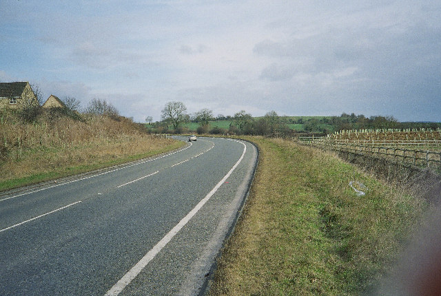 A367 Peasedown Bypass.